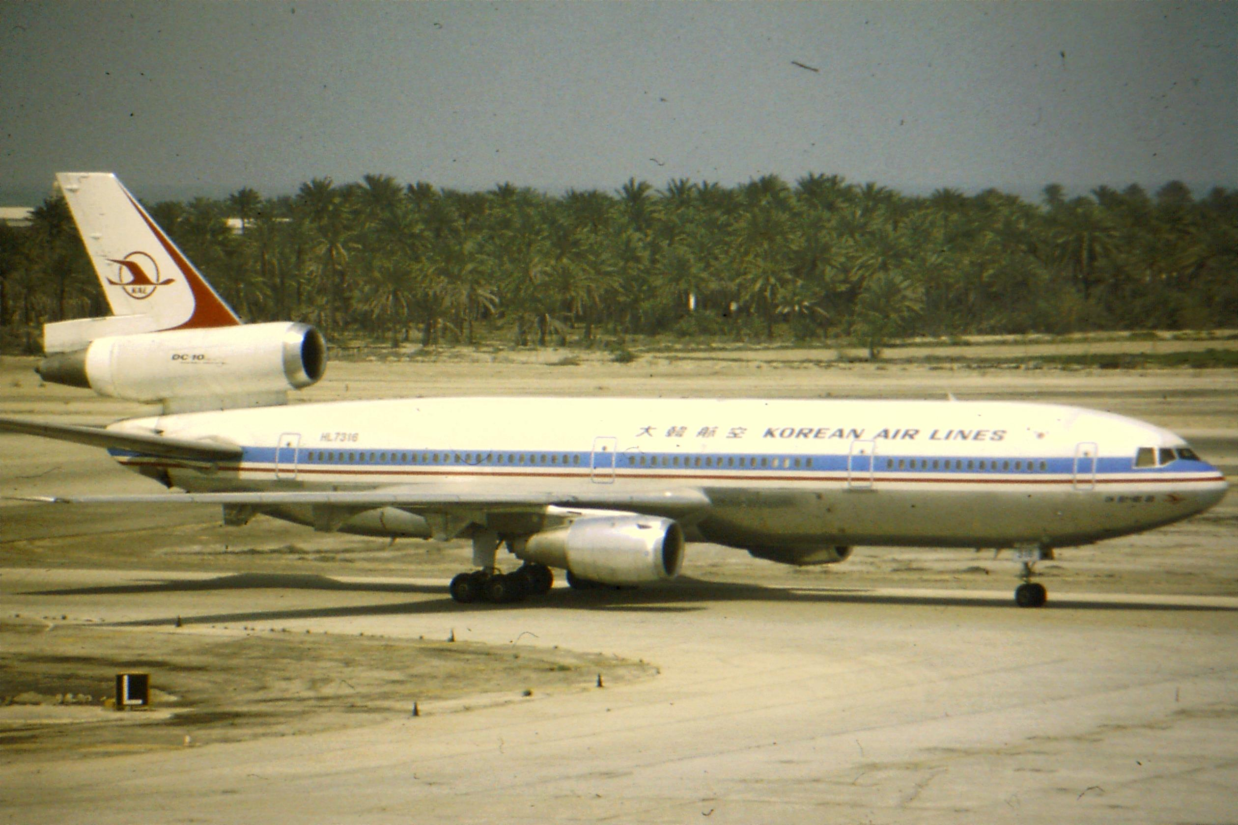 Another migrant labour fright from the old Kimpo Airport in the 1970's. KE used a mix of equipment on this route and it was common to see A300s, 707s and this DC-10. Later flights used the 747 as a through-flight to ZRH.